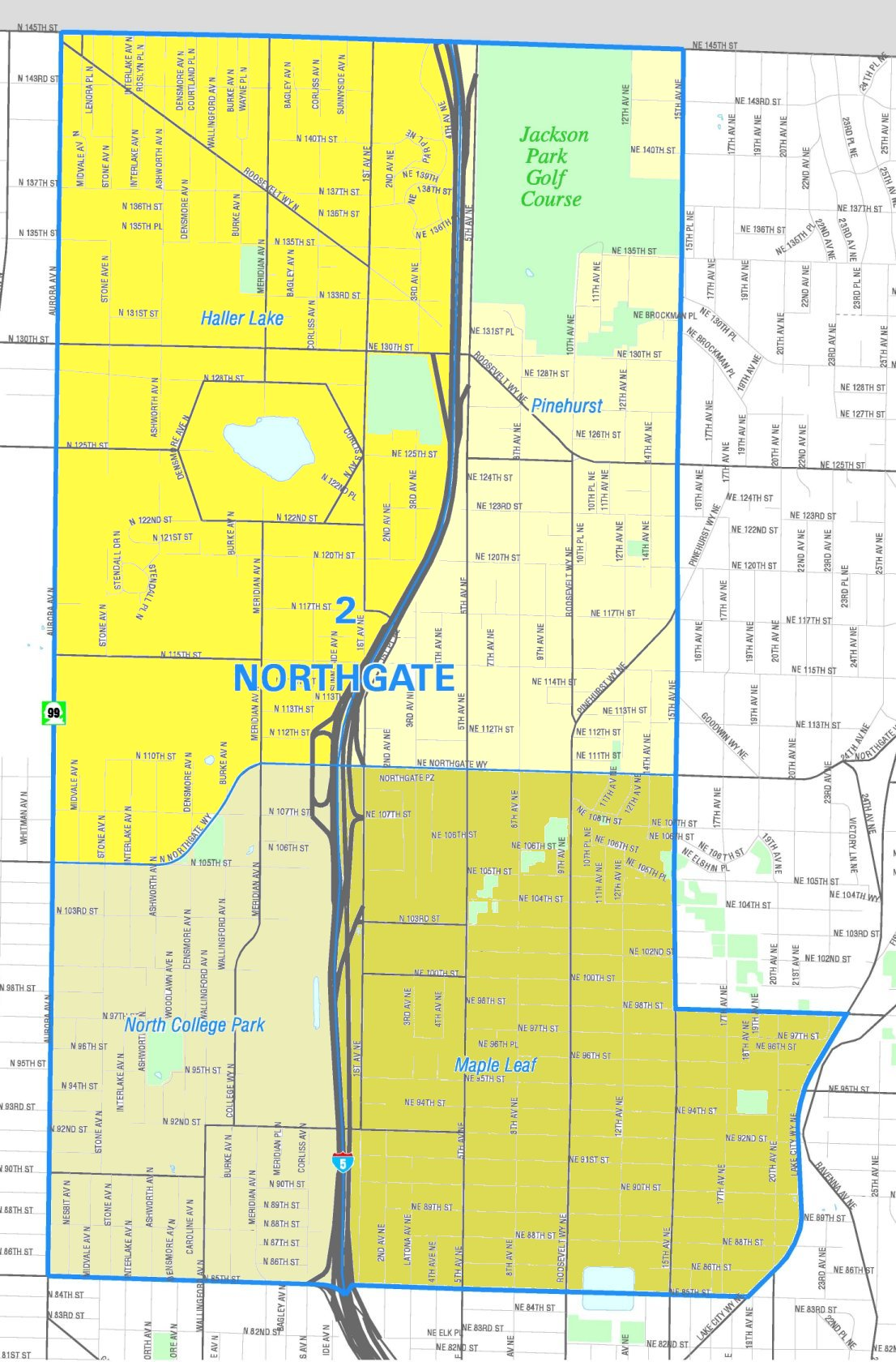 Map of Seattle's Northgate neighborhood. Like the other maps from the Seattle City Clerk's Neighborhood Map Atlas, this is not an official map; in particular, borders are not official. Disclaimer: The Seattle Neighborhood Atlas, which the Seattle Clerk's Office has placed in the public domain (as confirmed by OTRS ticket 2008033110016048) contains some general commentary on the maps, "About Maps", which should typically be linked as an accompaniment to these maps to (in their words) "minimize the numerous 'complaints' or comments by users who feel it necessary to point out how the Clerk's Office is 'wrong' about a certain section of town." In particular, "About Maps" says that the atlas "is designed for subject indexing of legislation, photographs, and other documents in the City Clerk's Office and Seattle Municipal Archives" and "is not designed or intended as an 'official' City of Seattle neighborhood map. There are many different ideas of what neighborhood districts exist in Seattle and what their names are…"